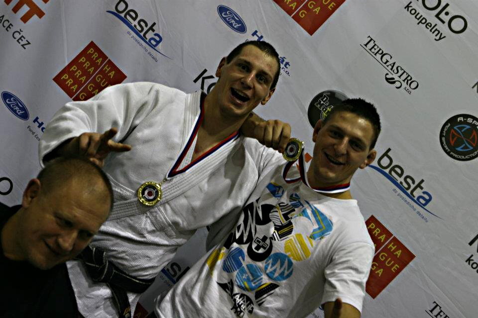 Krpálková brothers and coach Jaromír Lauer.